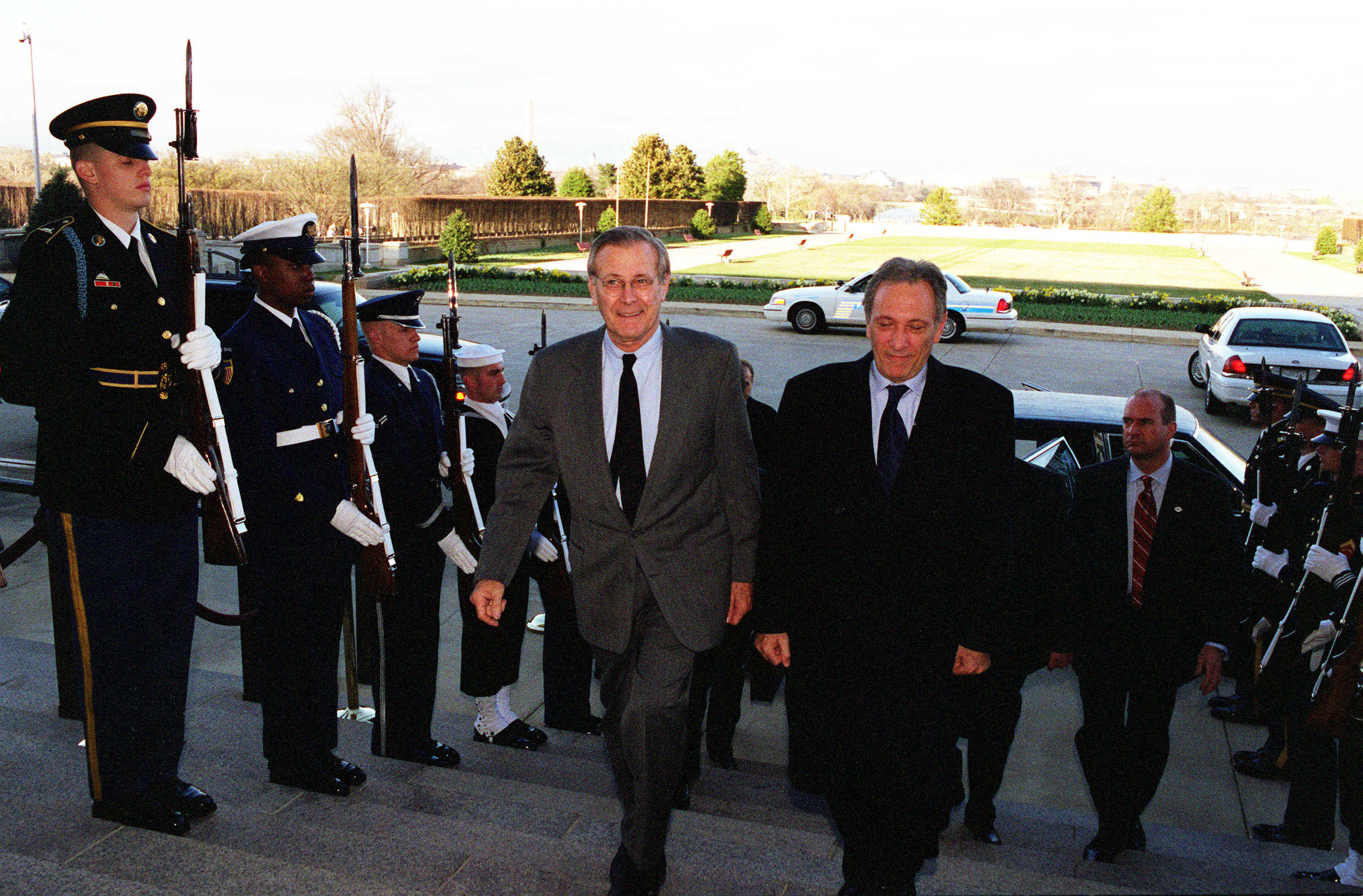 Secretary of Defense Donald H. Rumsfeld (left) escorts Minister of Foreign Affairs Ismail Cem, of Turkey, through an honor cordon and into the Pentagon on March 30, 2001. The two defense leaders will hold discussions on regional security issues of interest to both nations.